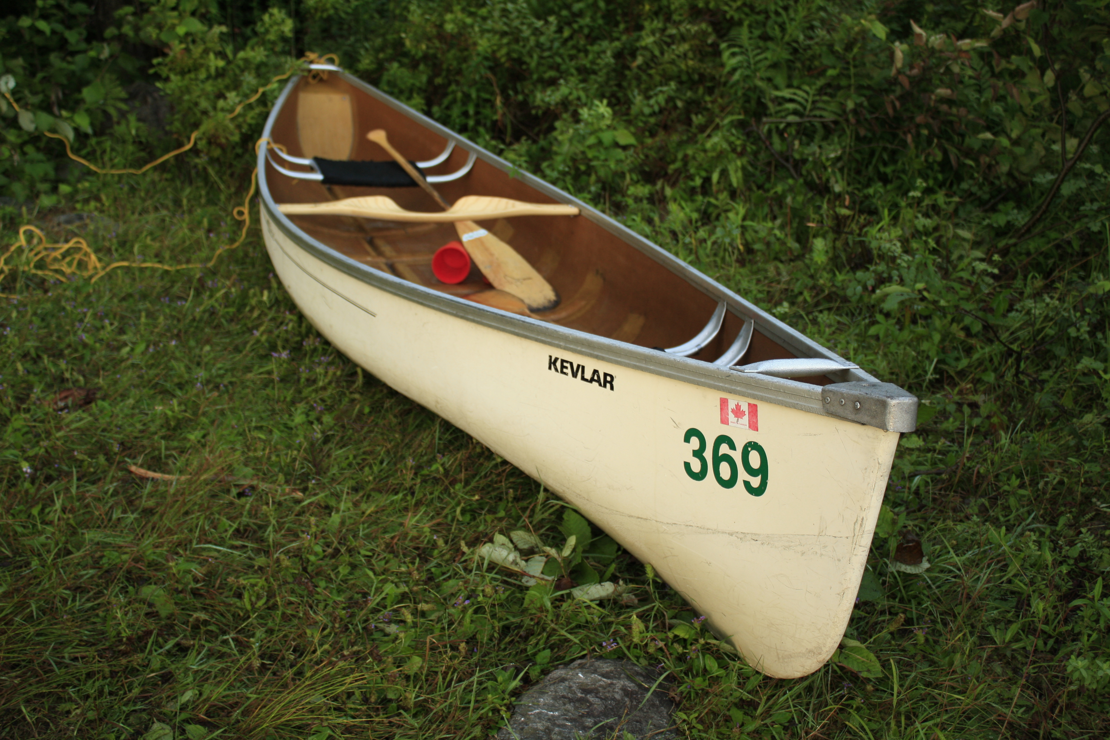 Kevlar canoe at Algonquin park, Ontario, Canada. Franklin.vp at en.wikipedia, the copyright holder of this work, hereby publishes it under the following license: Attribution: Franklin.vp at en.wikipedia